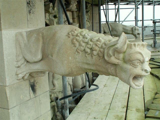 false gargoyles on Saint John's cathedral in 's Hertogenbosch, Holland